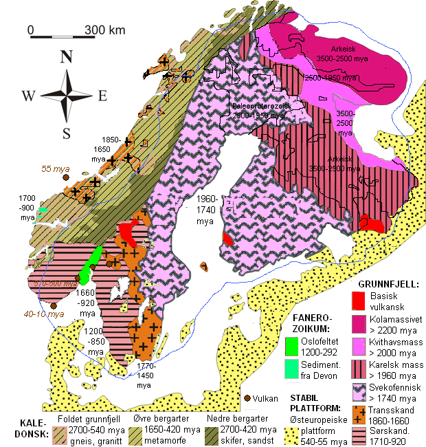 Geological map of Scandinavia with the Precambrian coastline indigated as a blue line. The land inside the blue line, alas, constitutes the Baltic Shield.